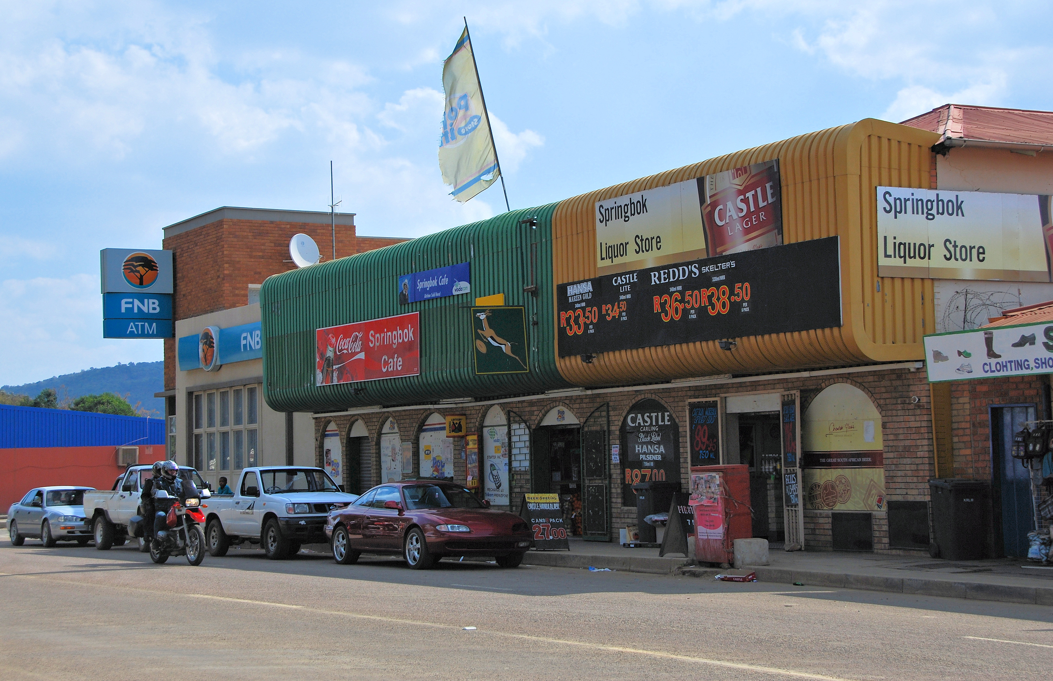 Shops in Sarel Cilliers street, Swartruggens, North West, South Africa